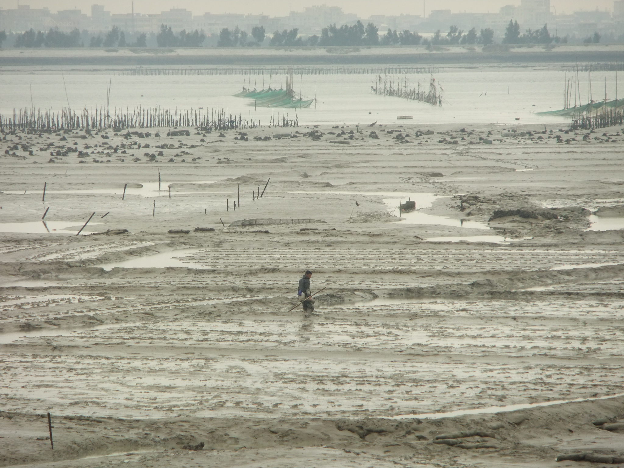 Anhai Bay is the estuary of the Shijing River. It separates Shijing Town (west side) from Dongshi town (east side). This is a tidal estuary; much of its bottom is exposed in low tide, and is used for something that looks like fishing and a form of oyster cultivation. These photos were taken from the west side of the bay, between Shijing and Shuitou; Dongshi Town's skyline can be seen in the background of some photos.